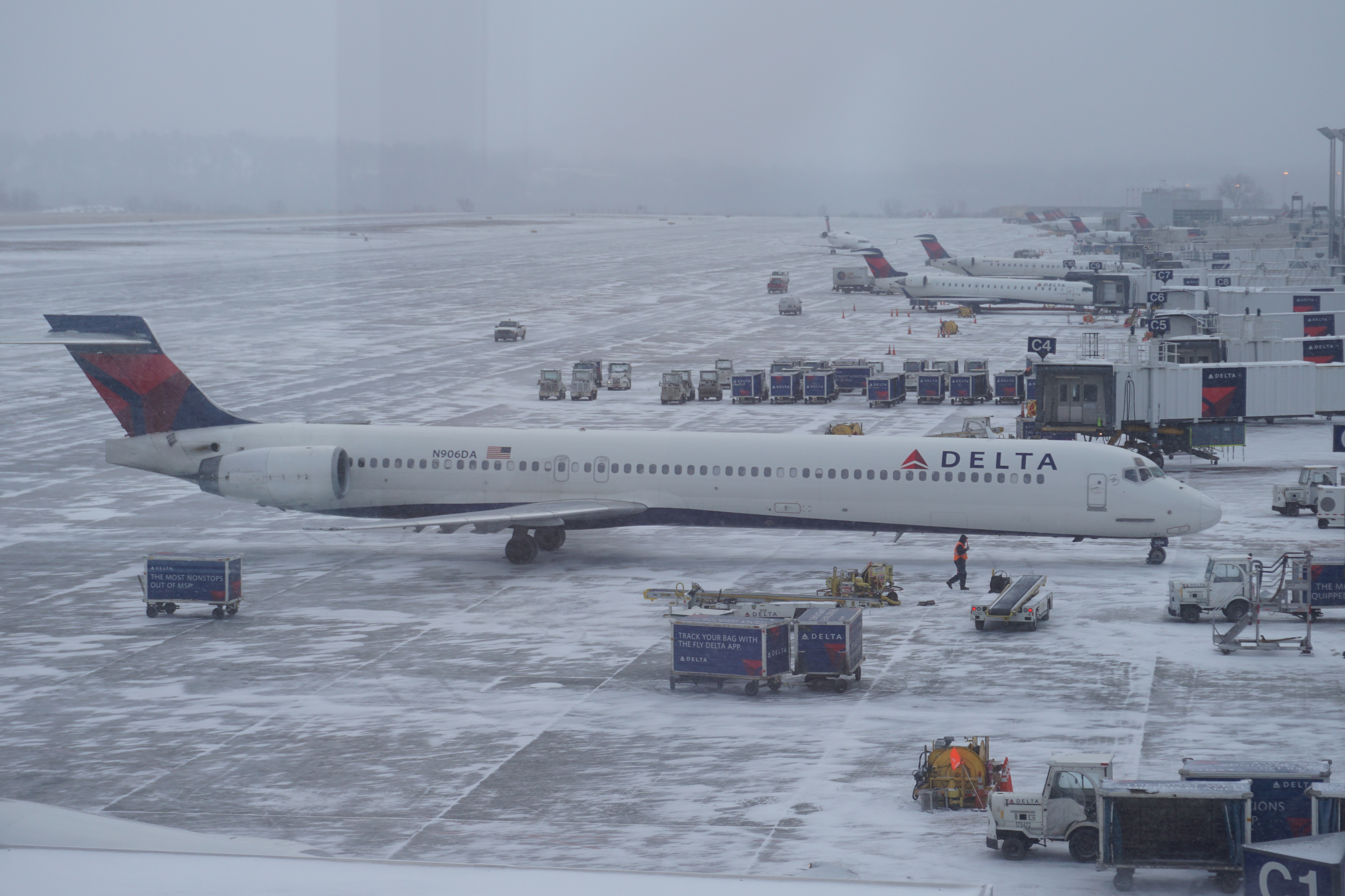 Delta Air Lines McDonnell Douglas MD-90 N906DA at Minneapolis–Saint Paul International Airport in Hennepin County, Minnesota (United States).